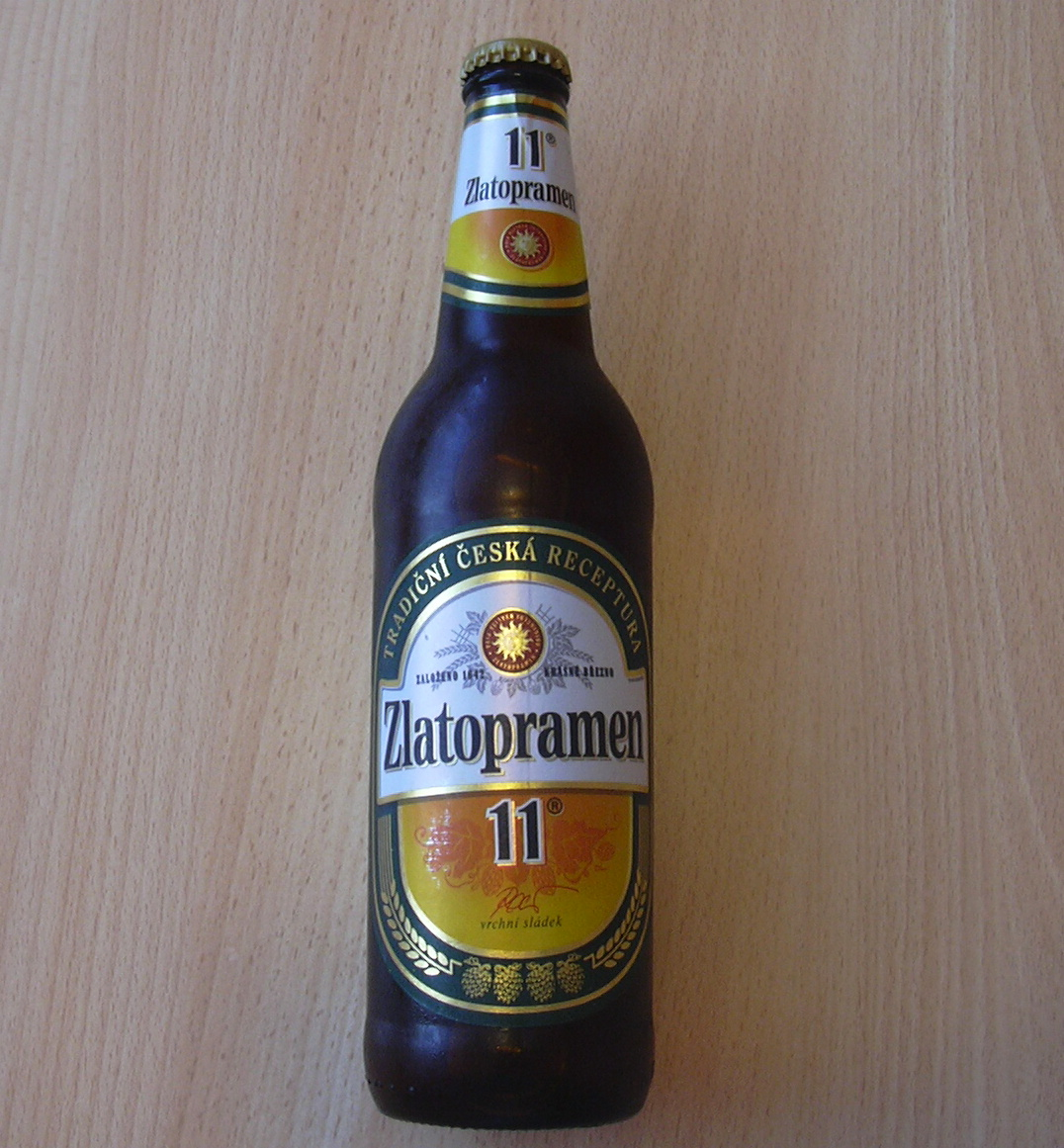 Bottle of Zlatopramen (A brand of beer from the Czech Republic)